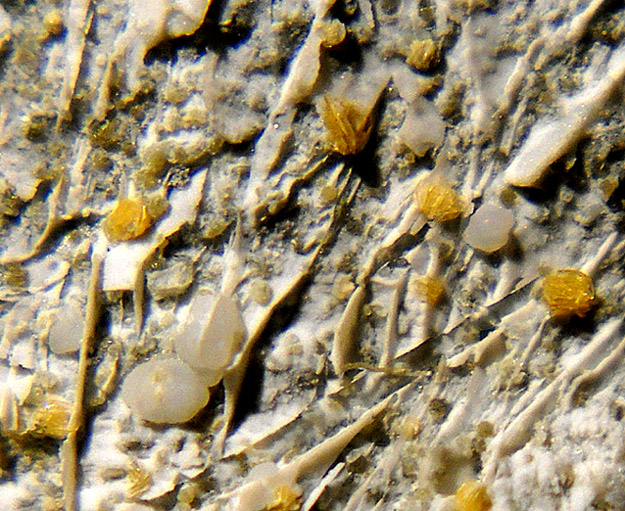 Cafetite, Lizardite, Calcite Base 4 mm Locality: Val di Serra Quarry, Pilcante, Ala, Lagarina Valley, Trento Province, Trentino-Alto Adige (Trentino-Südtirol), Italy Original description: Collection and photo Giorgio Bortolozzi